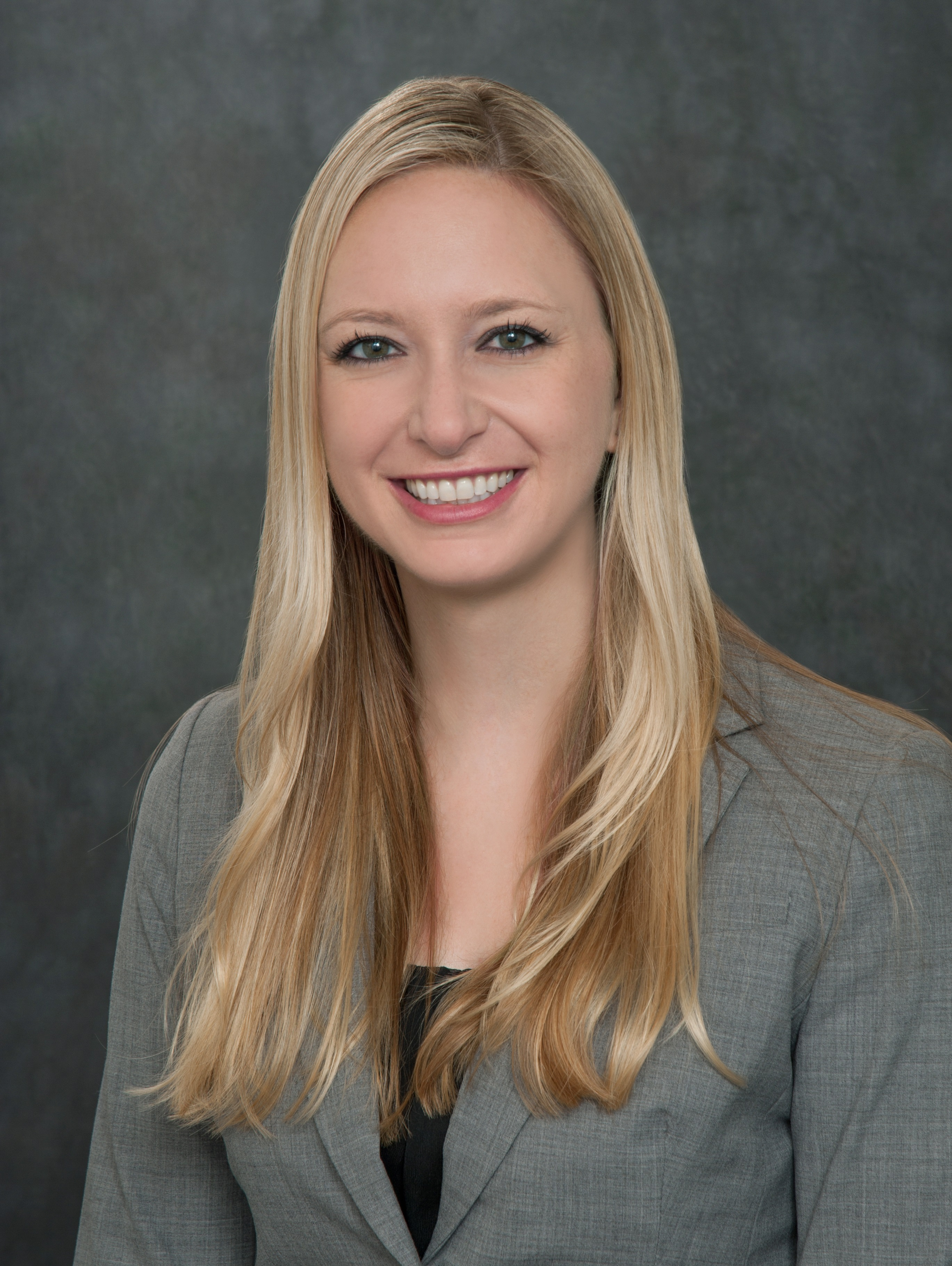 A portrait of the subject of the article, attorney Alissa Bjerkhoel